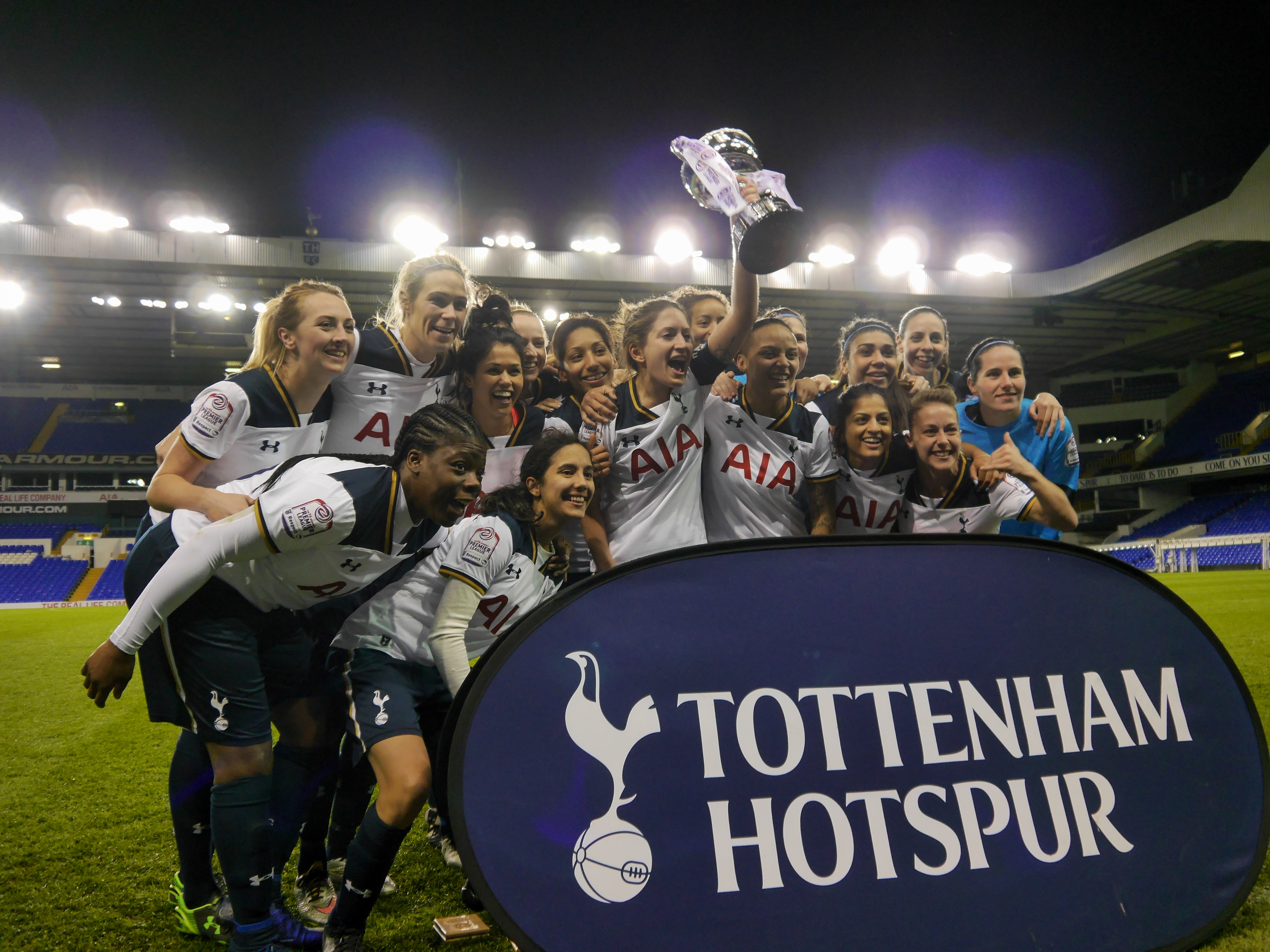 Tottenham Hotspur LFC v West Ham United LFC, 19 April 2017